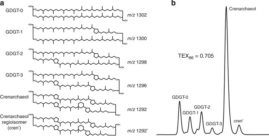 (a) Structures of the isoprenoidal GDGTs that comprise the TEX86 proxy, along with Crenarchaeol, a diagnostic lipid for Thaumarchaeota10. (b) A typical HPLC-MS trace of the isoprenoidal GDGTs and corresponding TEX86 value